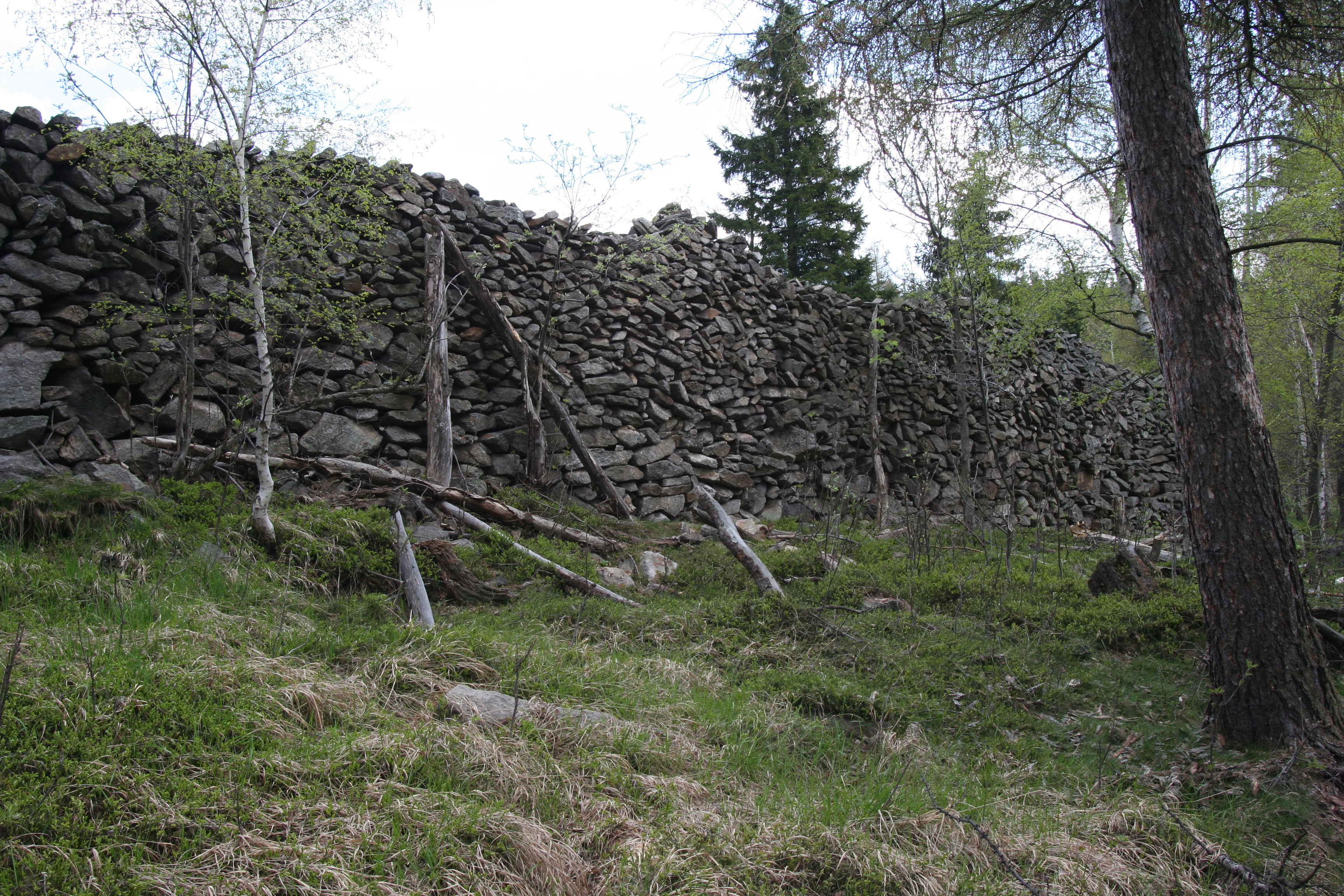 Stone Wall near 6m high, in Kopaniec, Lower Silesia, Poland.